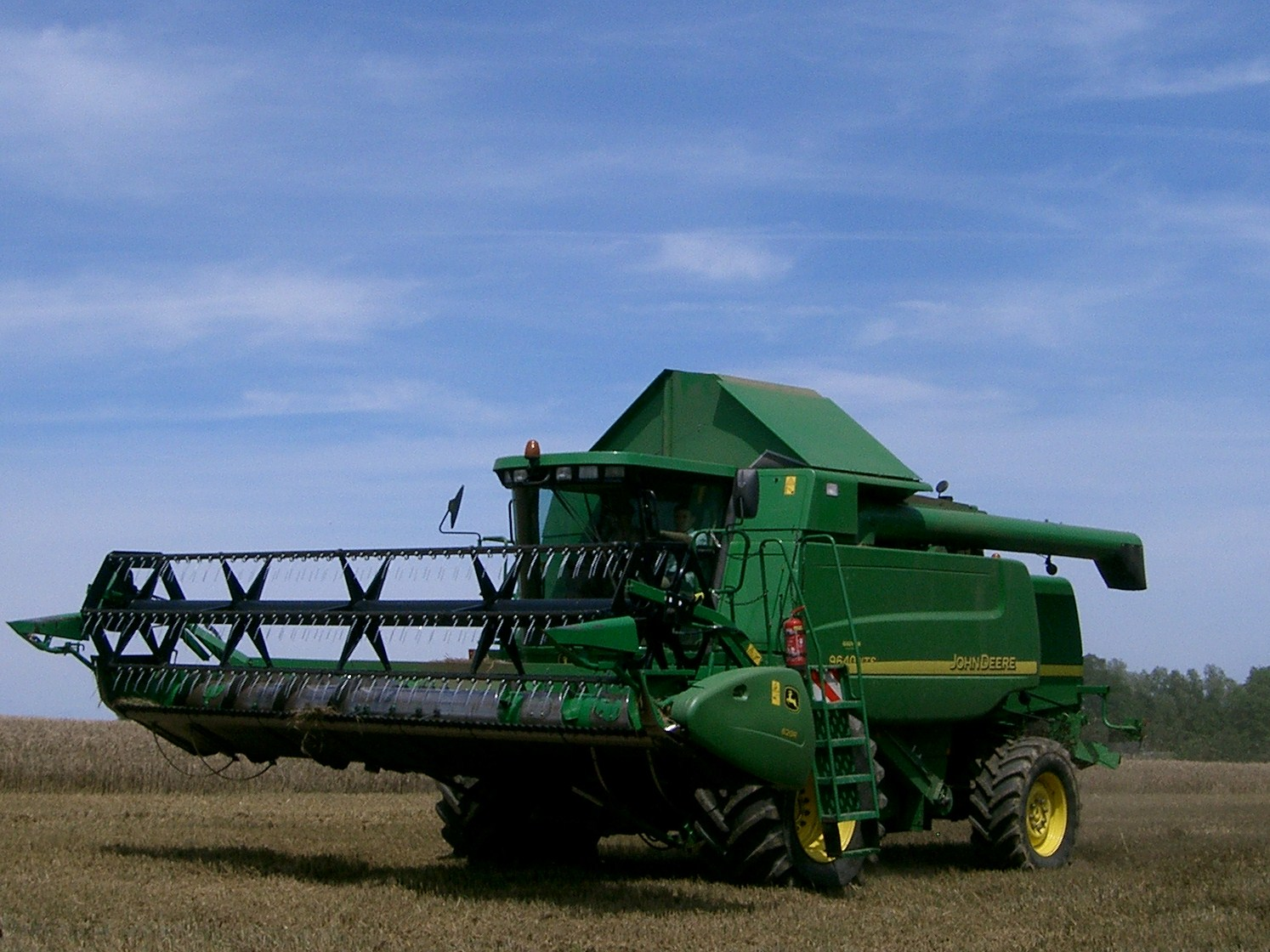 Harvest in France with a John Deere 9640WTS combine harvester